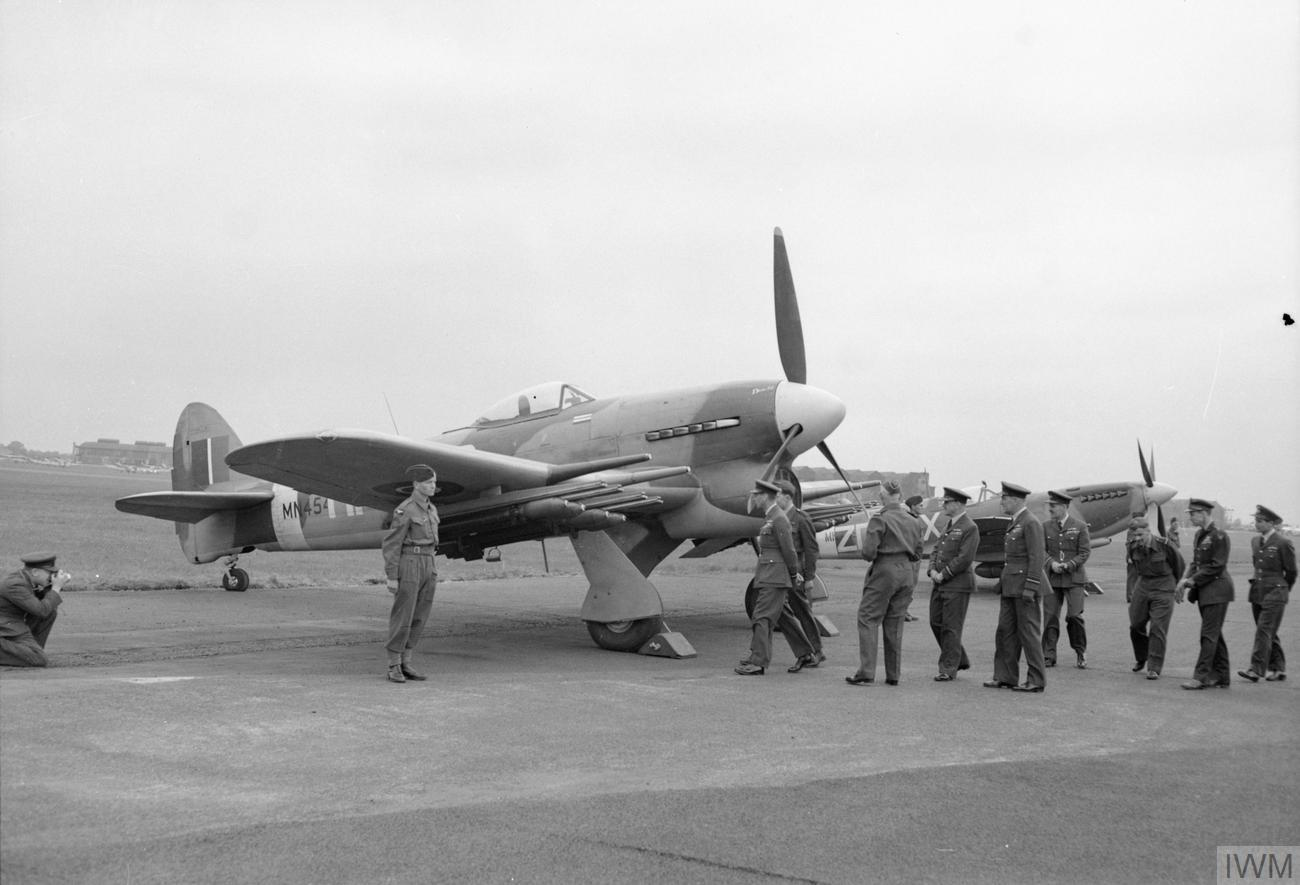 Royal Air Force- 2nd Tactical Air Force, 1943-1945. King George VI and his entourage of senior RAF officers walk over to Hawker Typhoon Mark IB, MN454 'HF-S', of No. 183 Squadron RAF, while inspecting aircraft and equipment which will be used in the forthcoming invasion of Normandy at Northolt, Middlesex. MN454 was flown by the Commanding Officer of 183 Squadron, Squadron Leader the Hon. F H Scarlett. Behind the King's party is a Supermarine Spitfire Mark IX of No. 222 Squadron RAF.